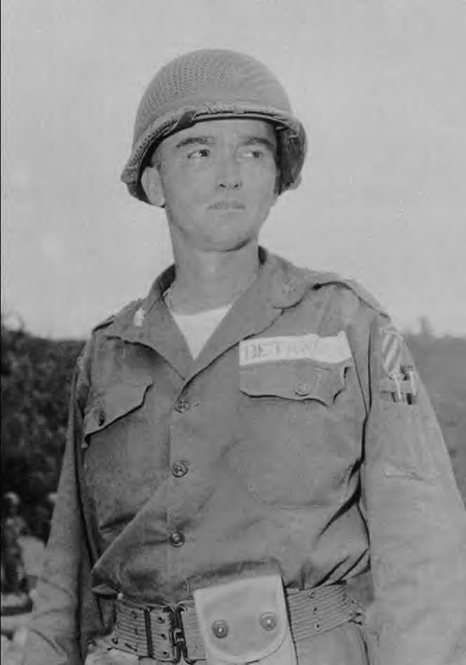 Lt. Col. Carlos Betances Ramirez, from the 65th Infantry Regiment of the United States